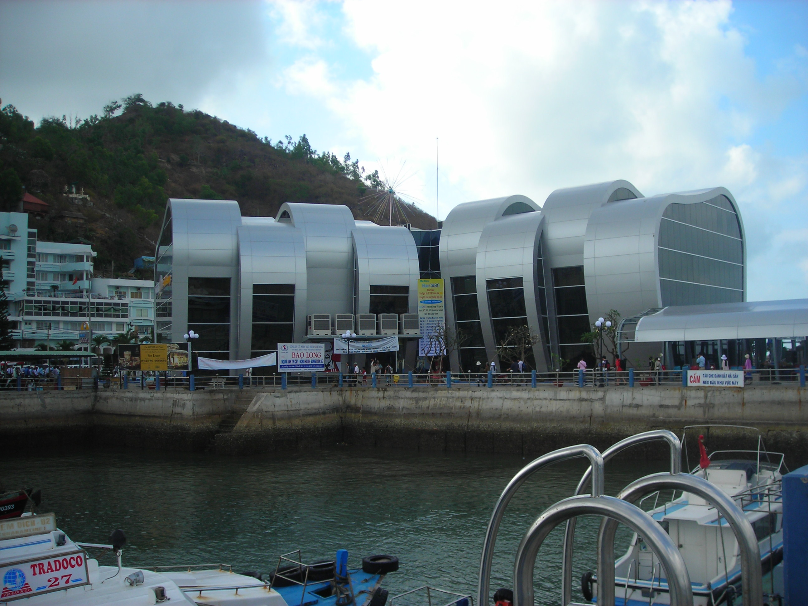 Vungtau Hydrofoil Station